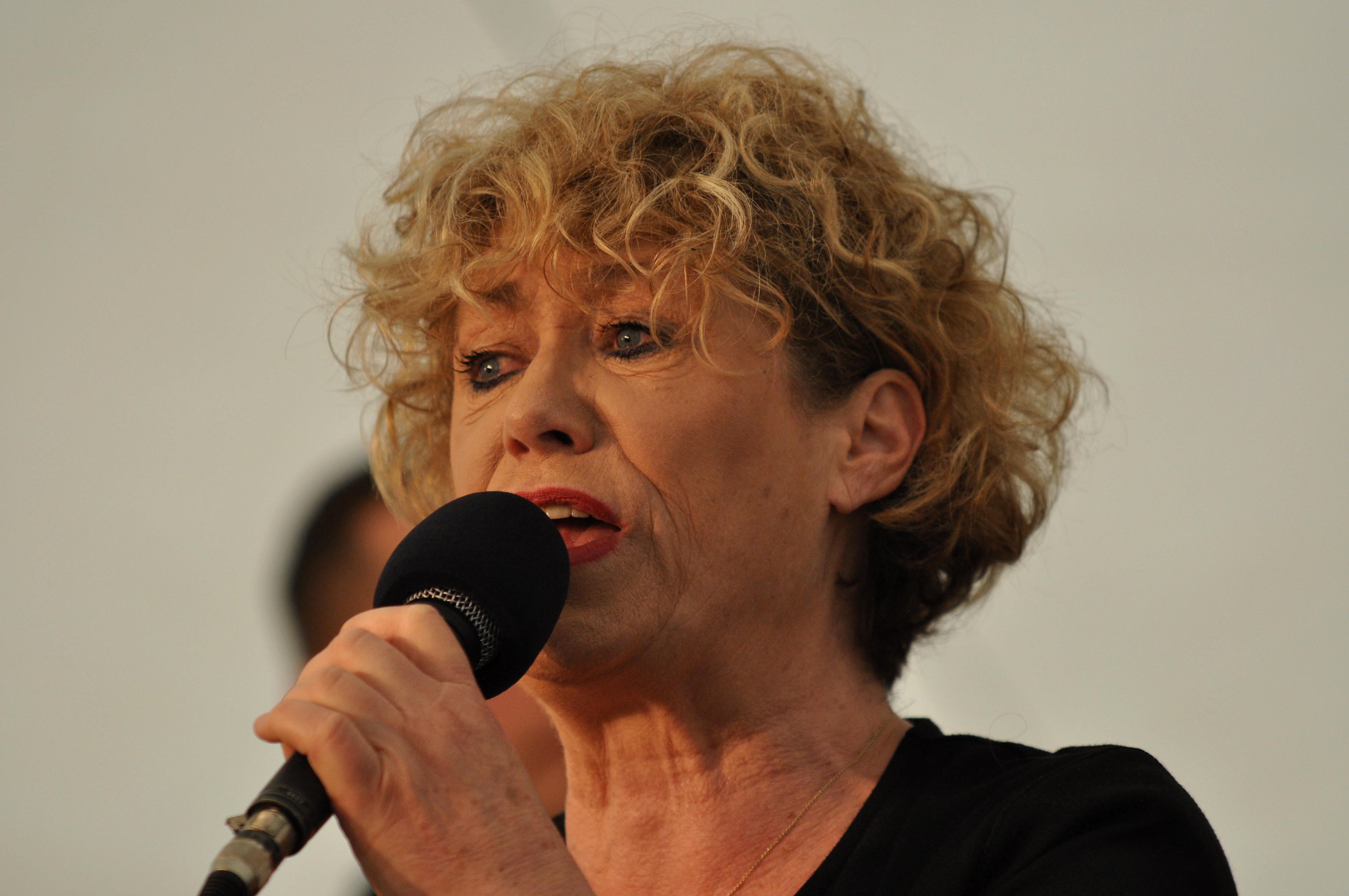 Barbara Thalheim and her trio (DEU) appearance at the 2017 song festival at Burg Waldeck Castle, Rheineland-Palatinate, Germany Festivalsommer This photo was created with the support of donations to Wikimedia Deutschland in the context of the CPB project "Festival Summer".